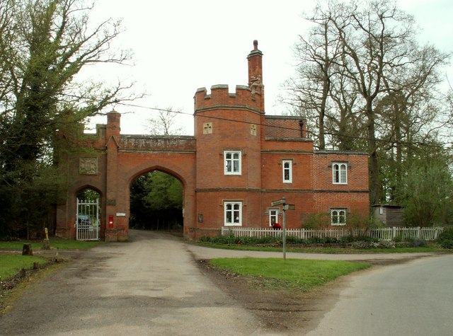 Gatehouse to Edwardstone Hall, Suffolk. The entrance through this gatehouse leads to the parish church of Edwardstone. The actual Hall has largely been demolished and the church sits in the hall's grounds.